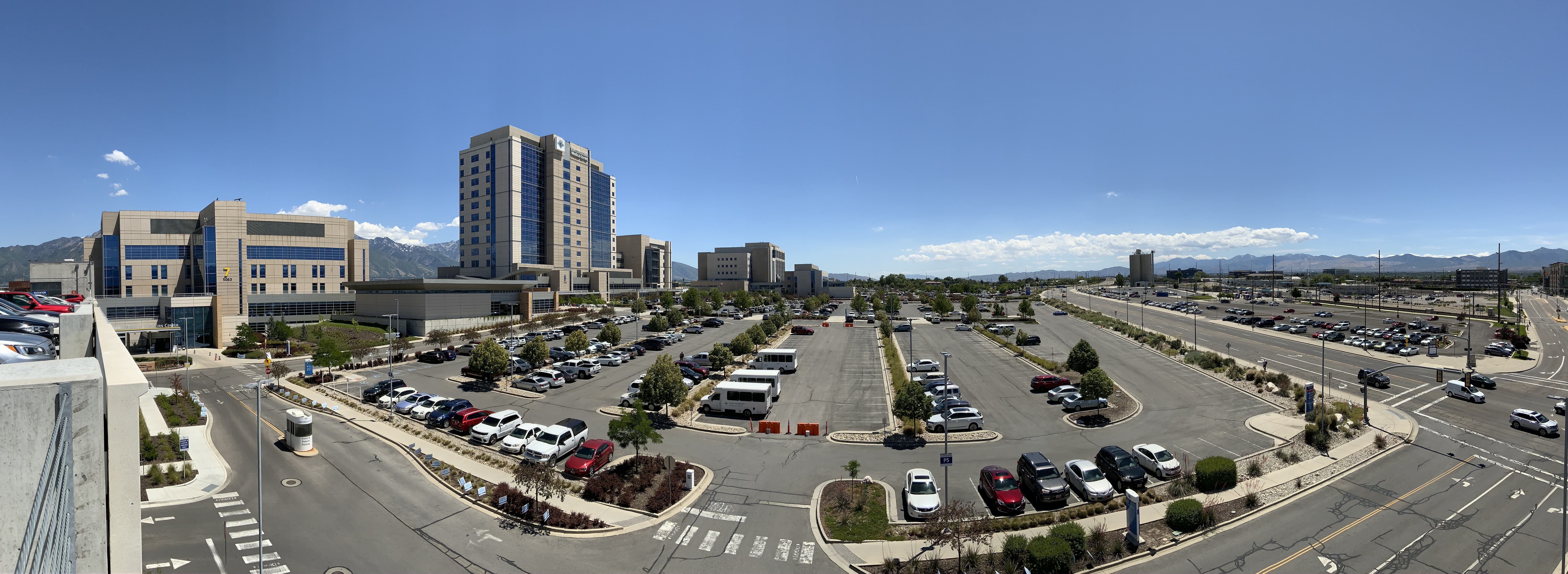 Panorama of the Intermountain Medical Center campus, with main parking lot in view.